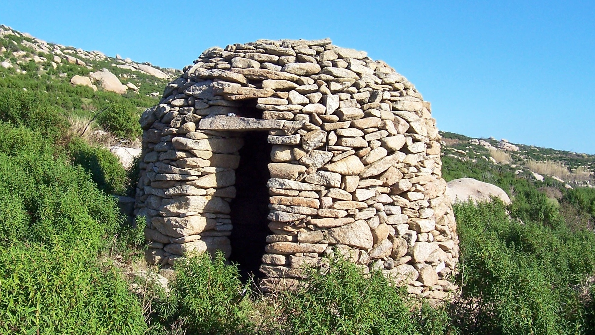 Elba island